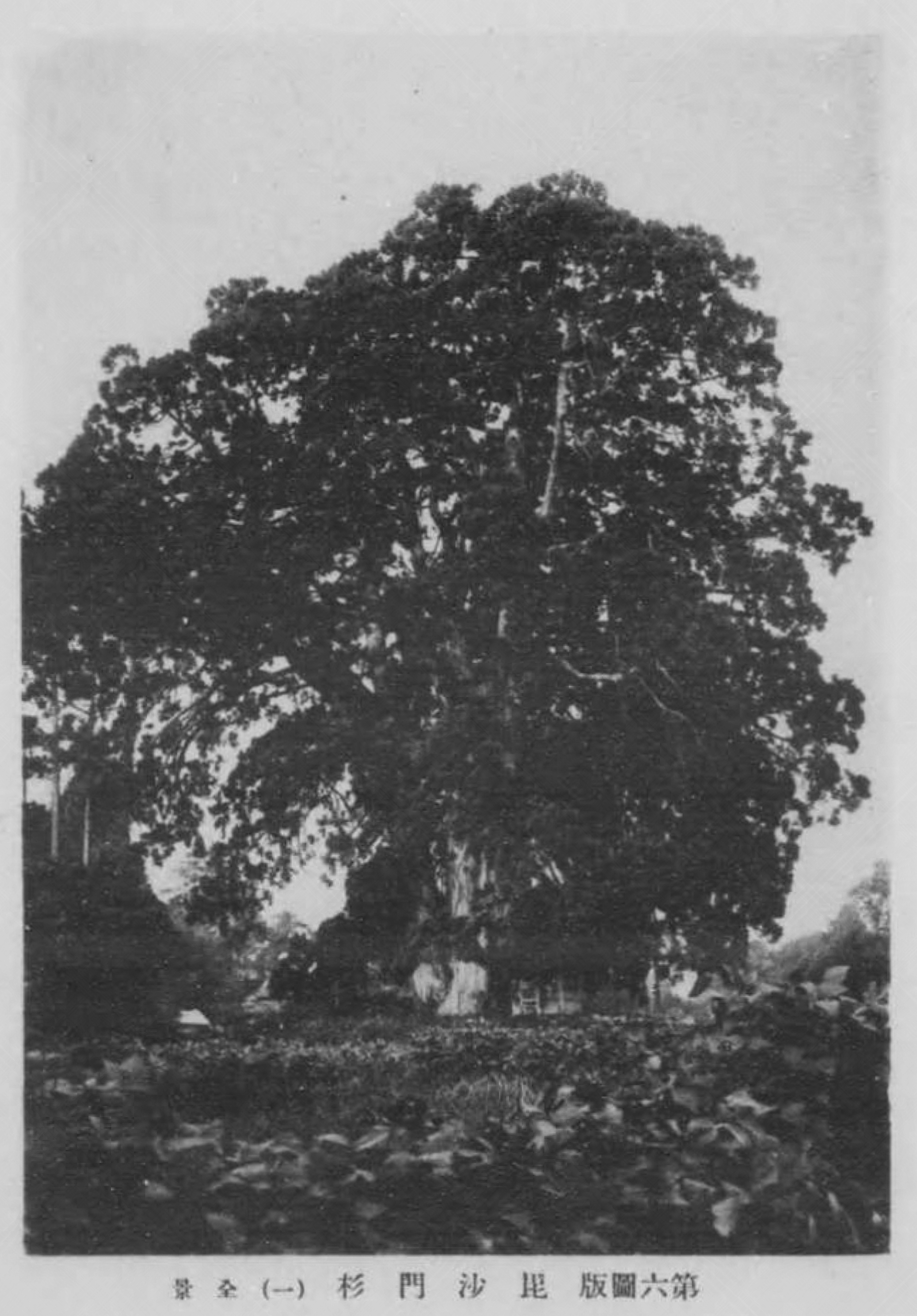 Bishamon Sugi at Takaoka, Toyama prefecture, Japan.